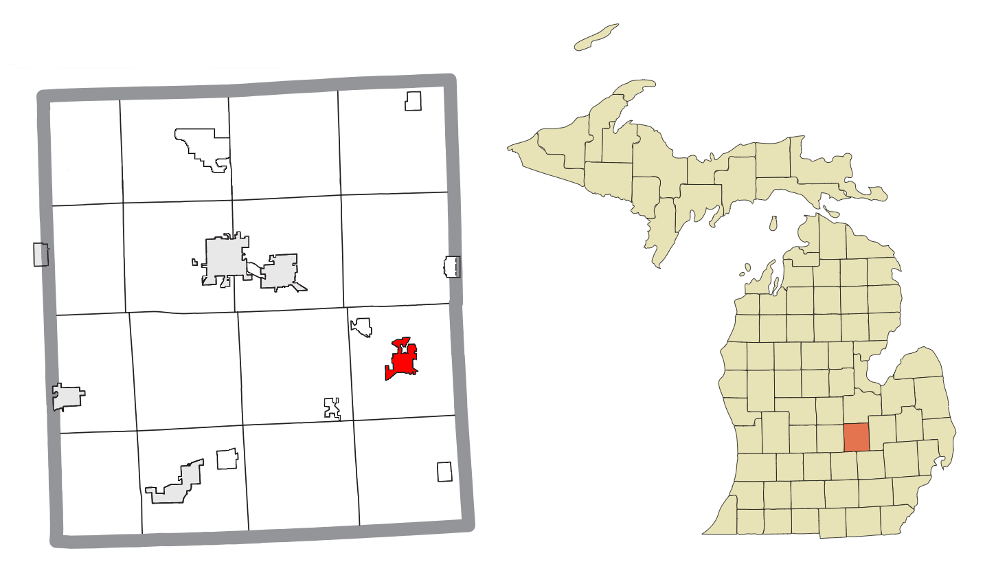 Durand, MI